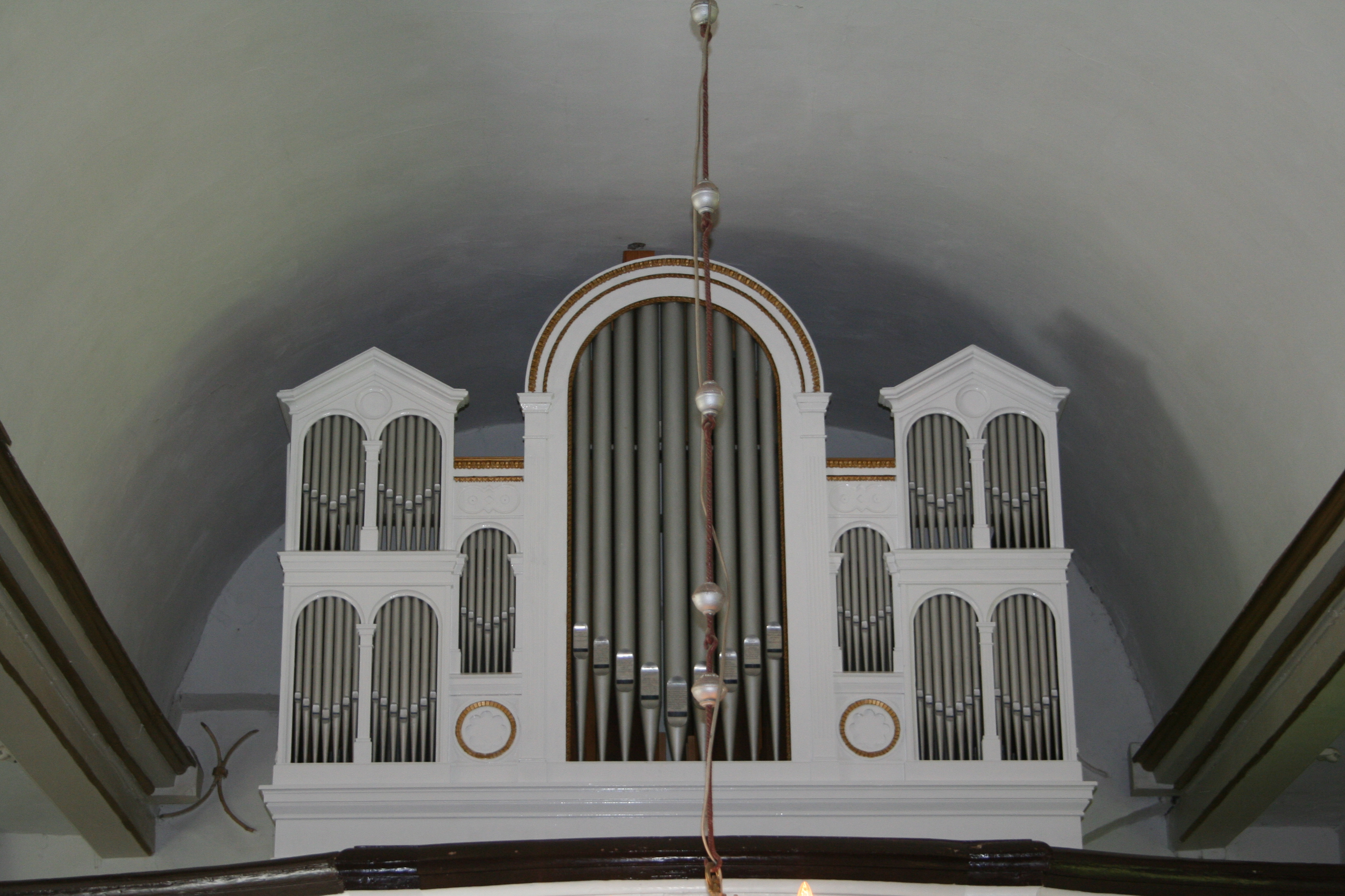 Lutheran Church in Sorkwity